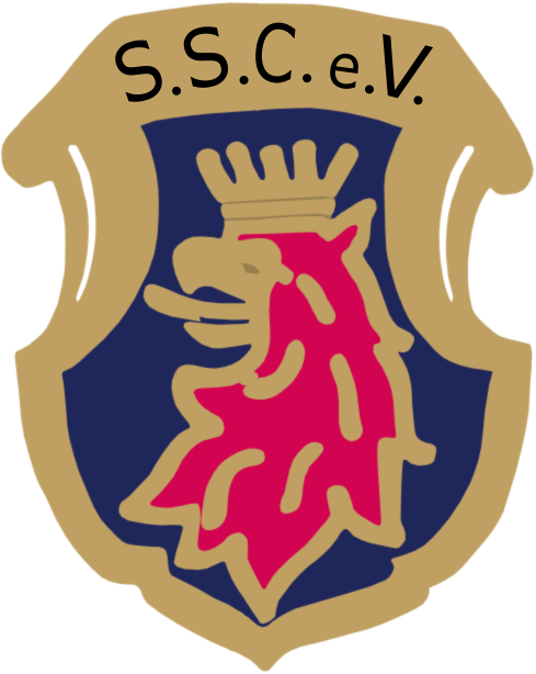 Logo of Stettiner SC, German football team.